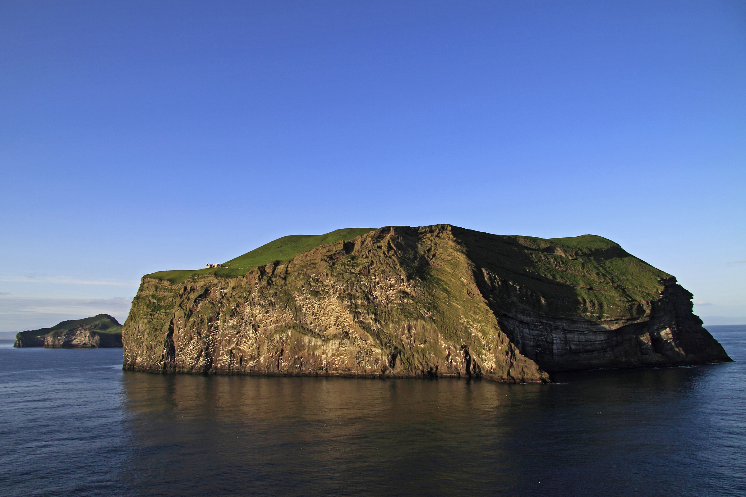 Bjarnarey island, Vestmann Islands, south of Iceland